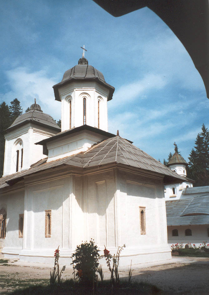 Old Church of Sinaia Monastery 01